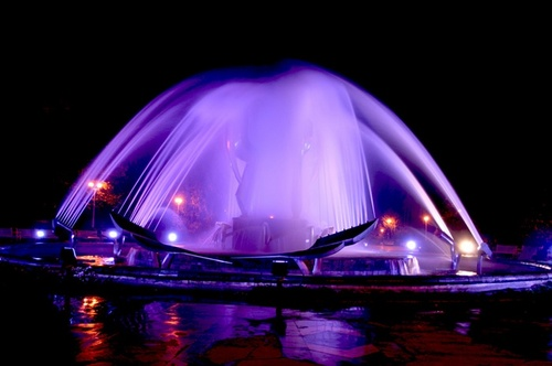 Fountain in Independenţei Square, Brăila, Romania.